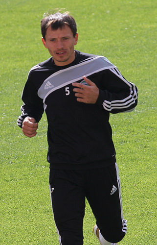 Sergey Skoblyakov